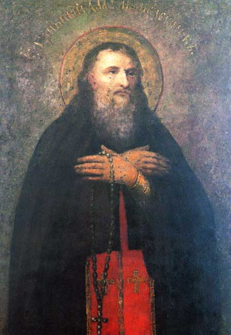 Saint Damian the Healer (d. 1071), monk from Kyiv Caves Monastery, Ukraine